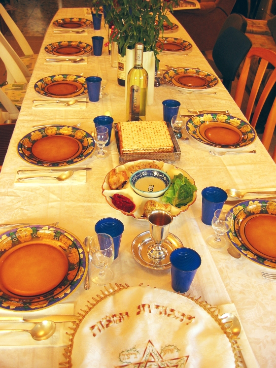 Festive Seder table with wine, matza and Seder plate.